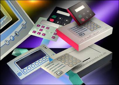 Electronic membrane switches for use in input/output devices - some have flex tails attached